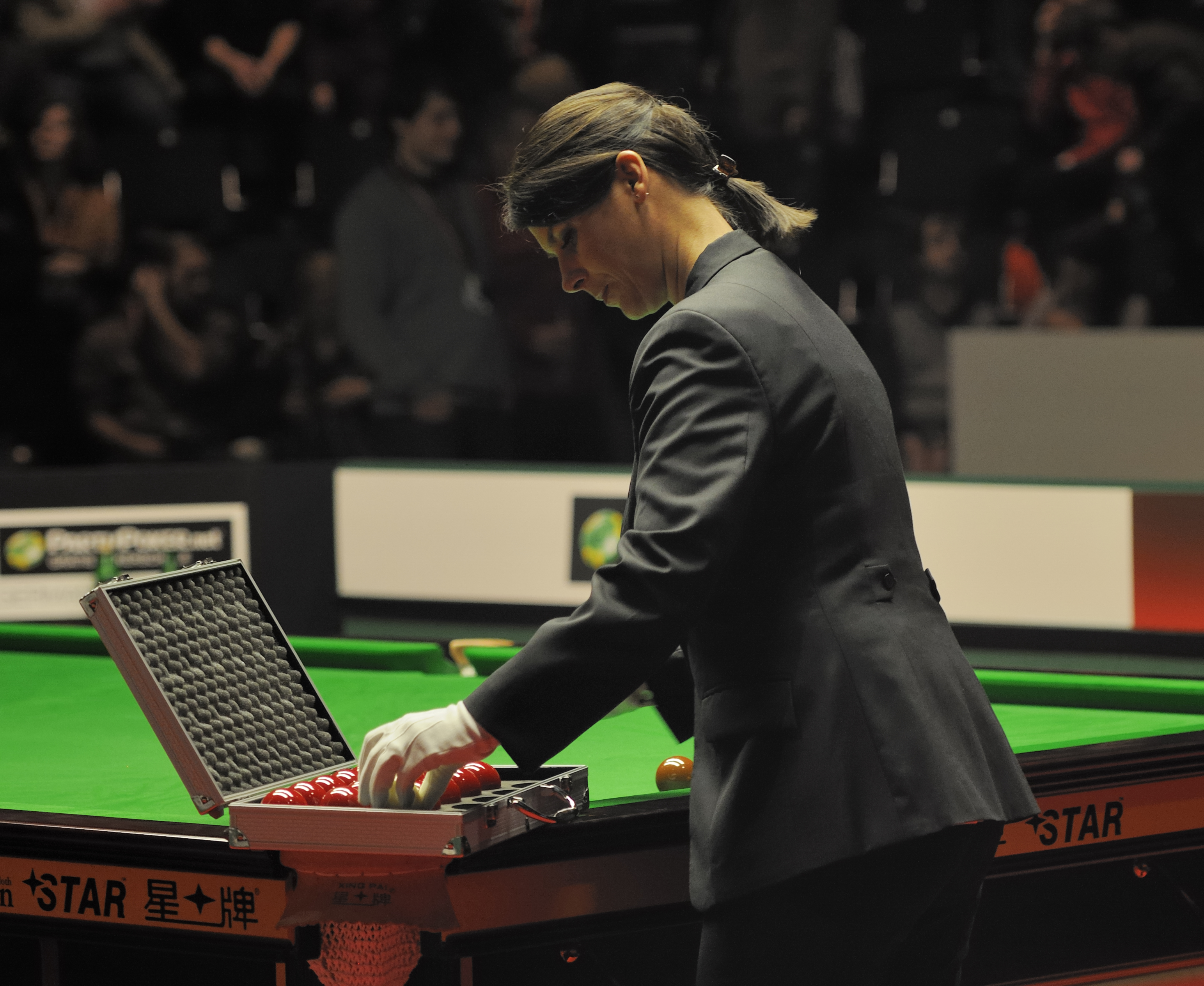 Picture taken in Berlin during the Snooker German Masters in 2011. Michaela Tabb.